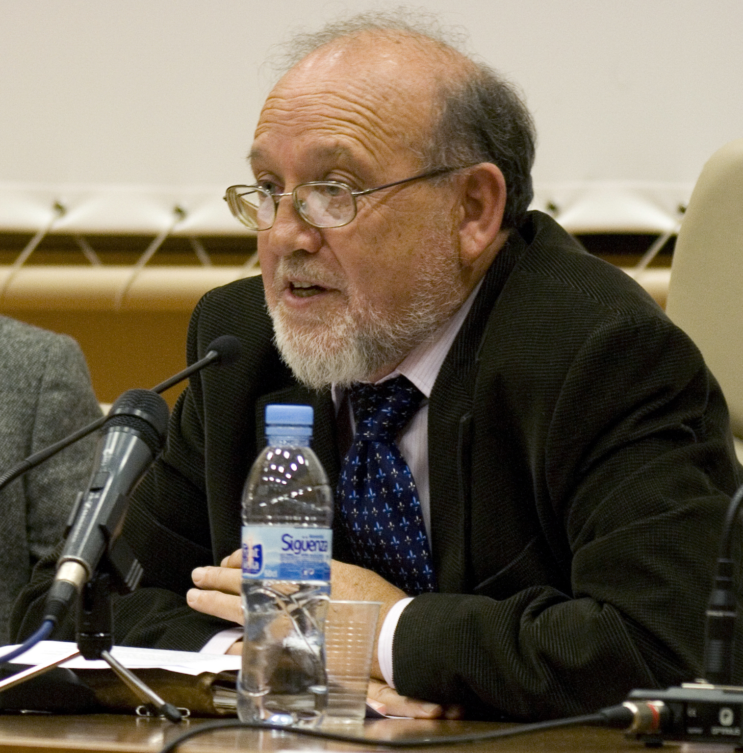 Reyes Mate, Spanish filosopher.